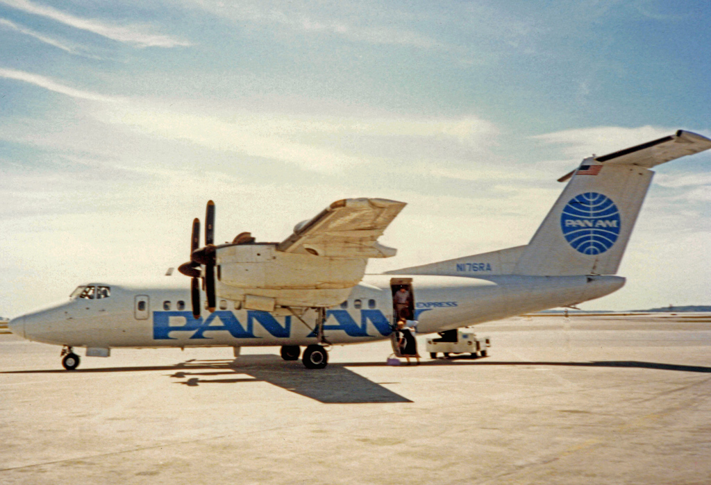 Pan Am Express DHC-7 N176RA at Boston Logan Airport on arrival from New York JFK in 1987